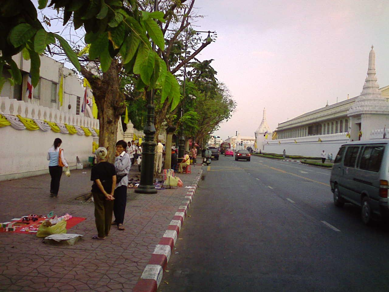 Naphralan st.